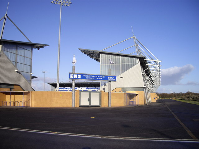 Weston Homes Community Stadium Colchester, near to Mile End, Essex, Great Britain.